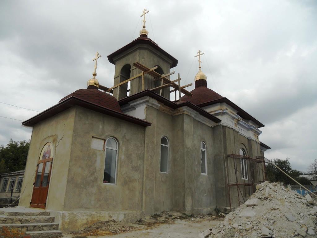 Nativity of Virgin Mary church in Buțeni, Hîncești District, Republic of Moldova - during restoration